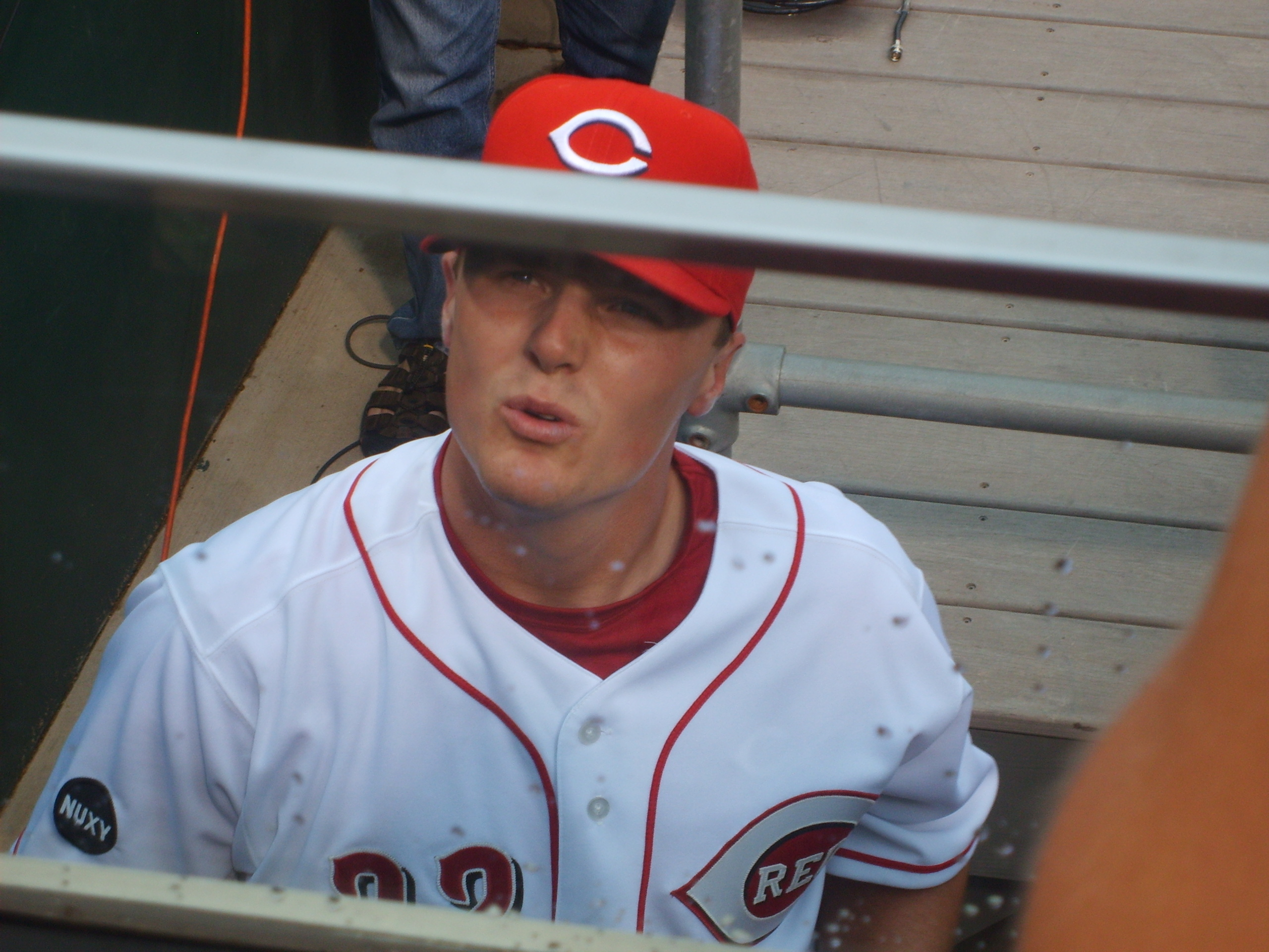 Description This is a photo of Jay Bruce the day of his big league debut. Date5/27/2008SourceI created this image entirely by myself.AuthorMevins31 (talk) 21:22, 29 May 2008 . . Mevins31 . . 2,560×1,920 (1.23 MB) This is a photo of Jay Bruce the day of his big league debut.